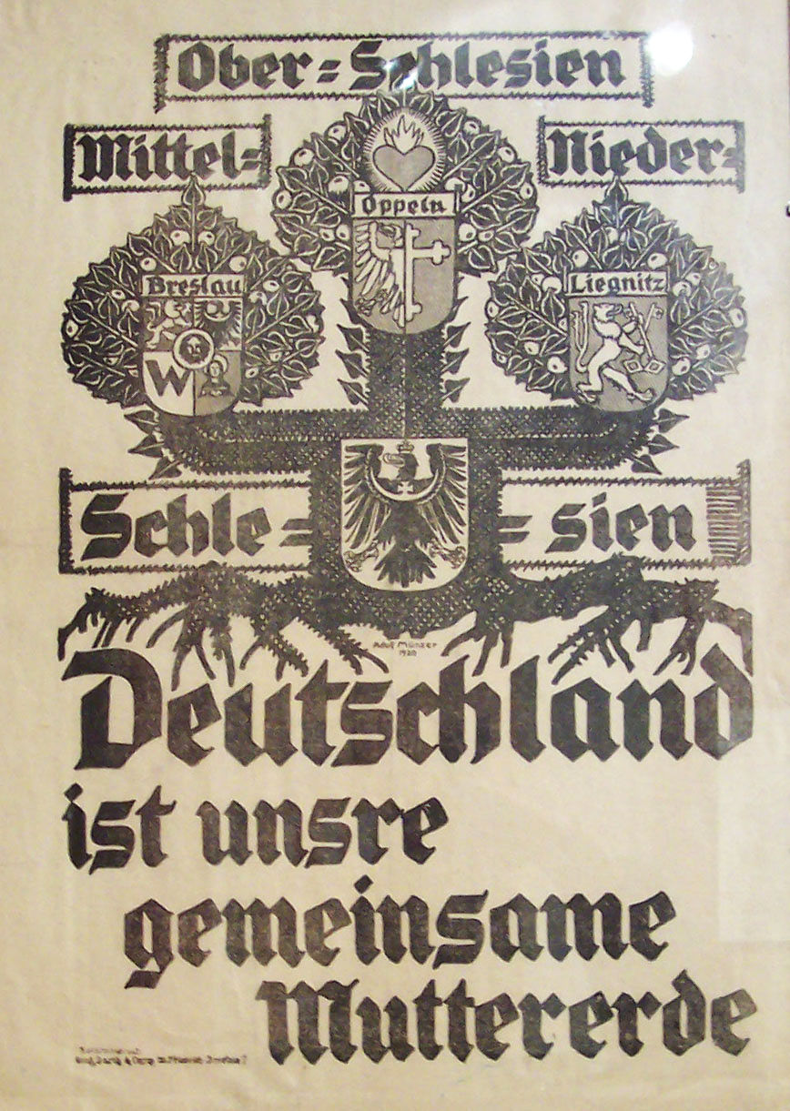 Poster from the Upper Silesia plebiscite 1921. Text:"Upper = Silesia""Middle = Lower =""Sile = sia""Germany is our collective mother earth"